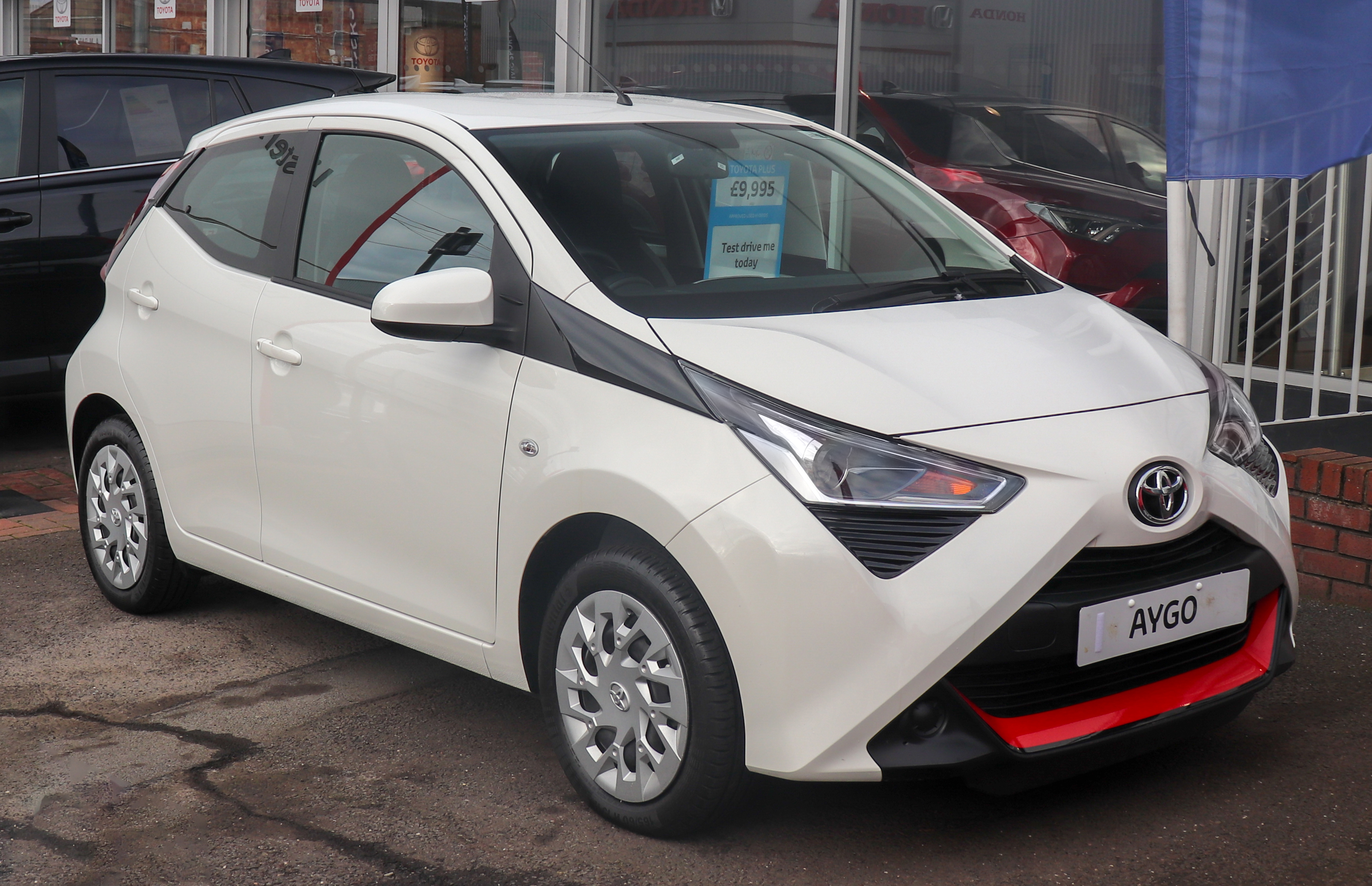 2018 Toyota Aygo x-play 1.0 Taken in Stratford-upon-Avon